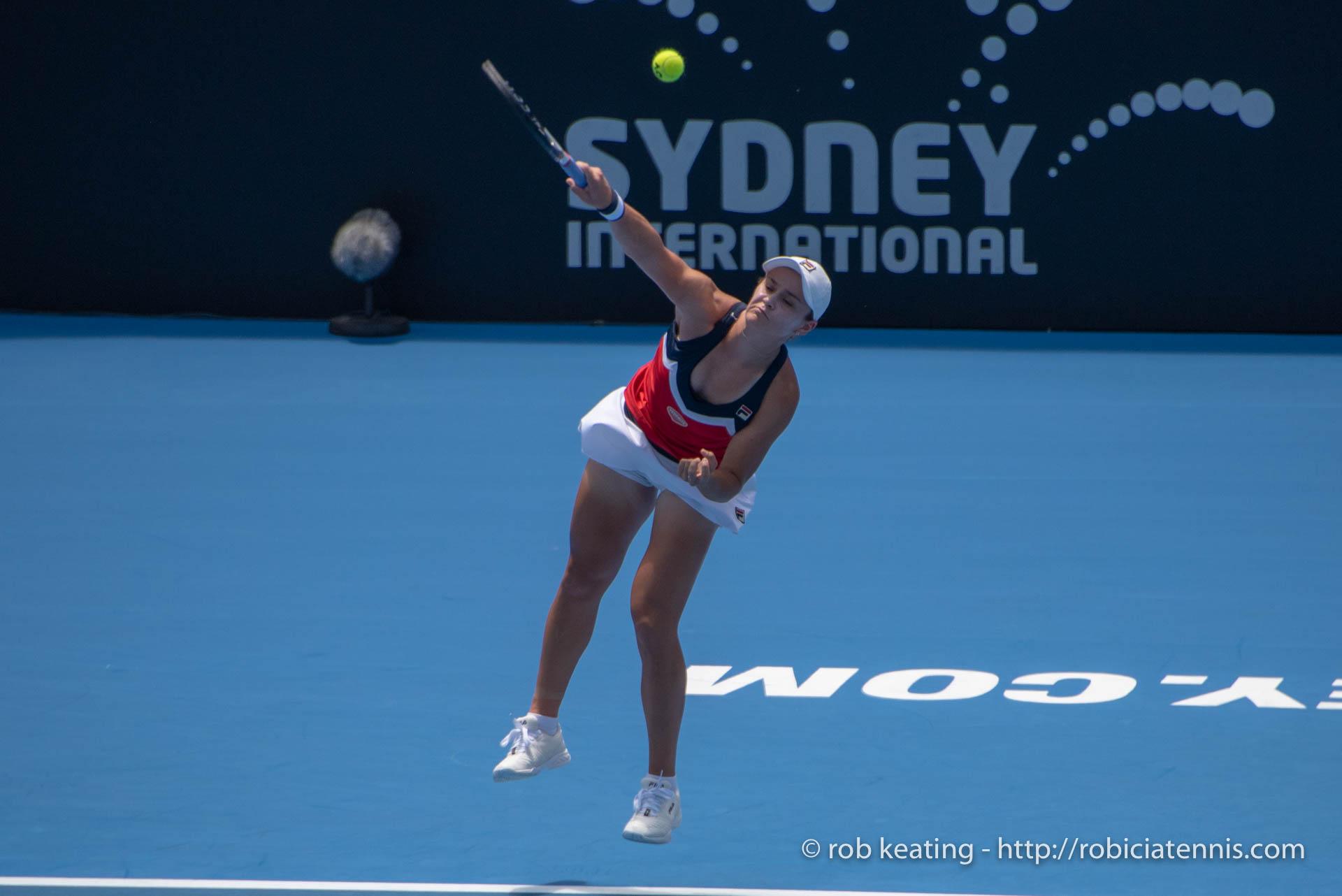 Sydney, Australia - 8 January 2018: Ashleigh Barty of Australia in a round one match against Jelena Ostapenko from Latvia at the Sydney International. (Photo by Rob Keating/robiciatennis.com)